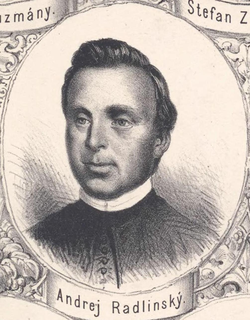 Portrait of Andrej Ľudovít Radlinský (1817 - 1879), Slovak linguist, writer and editor. Picture cropped from a gallery of famous Slovaks.